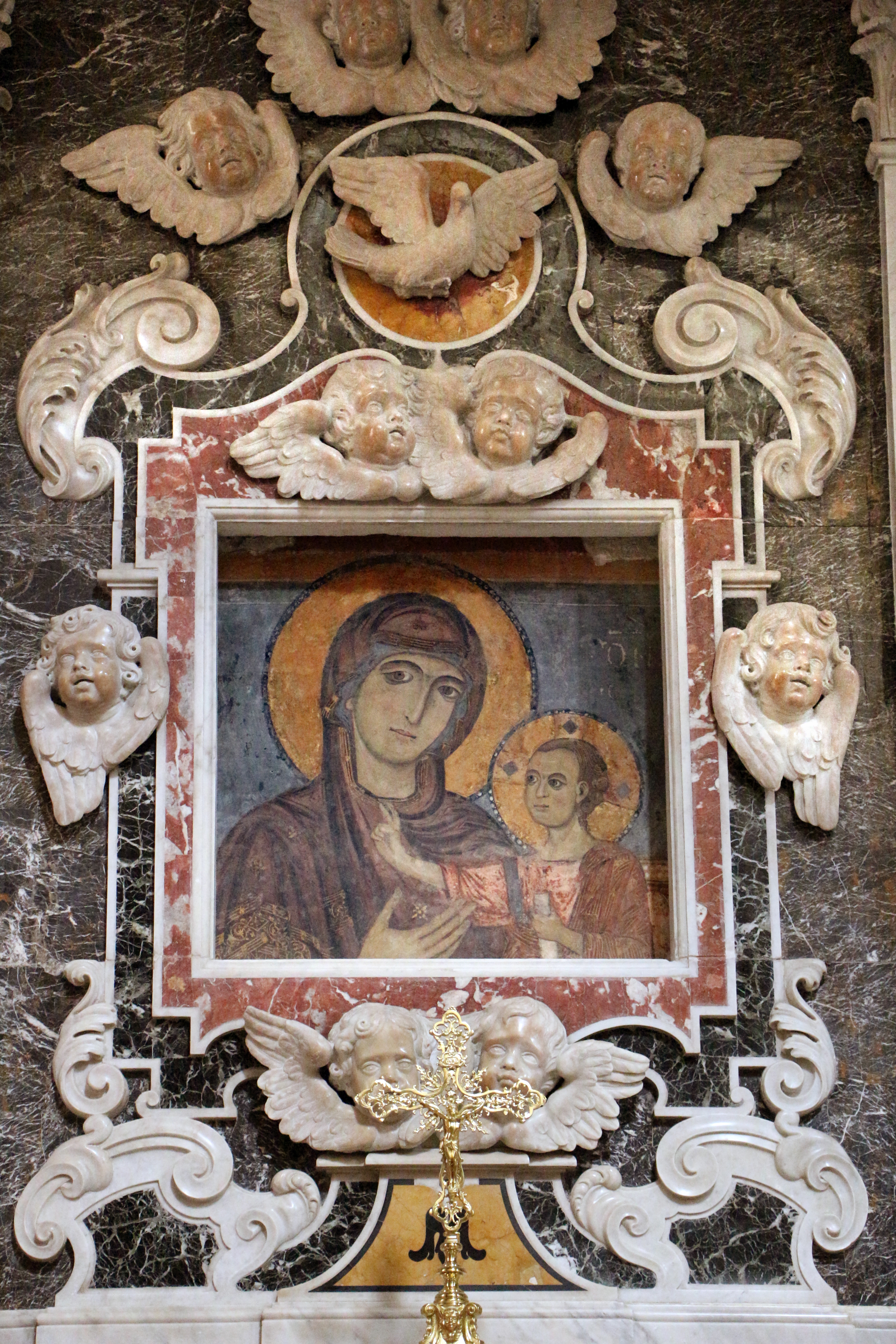 Cathedral (Matera)